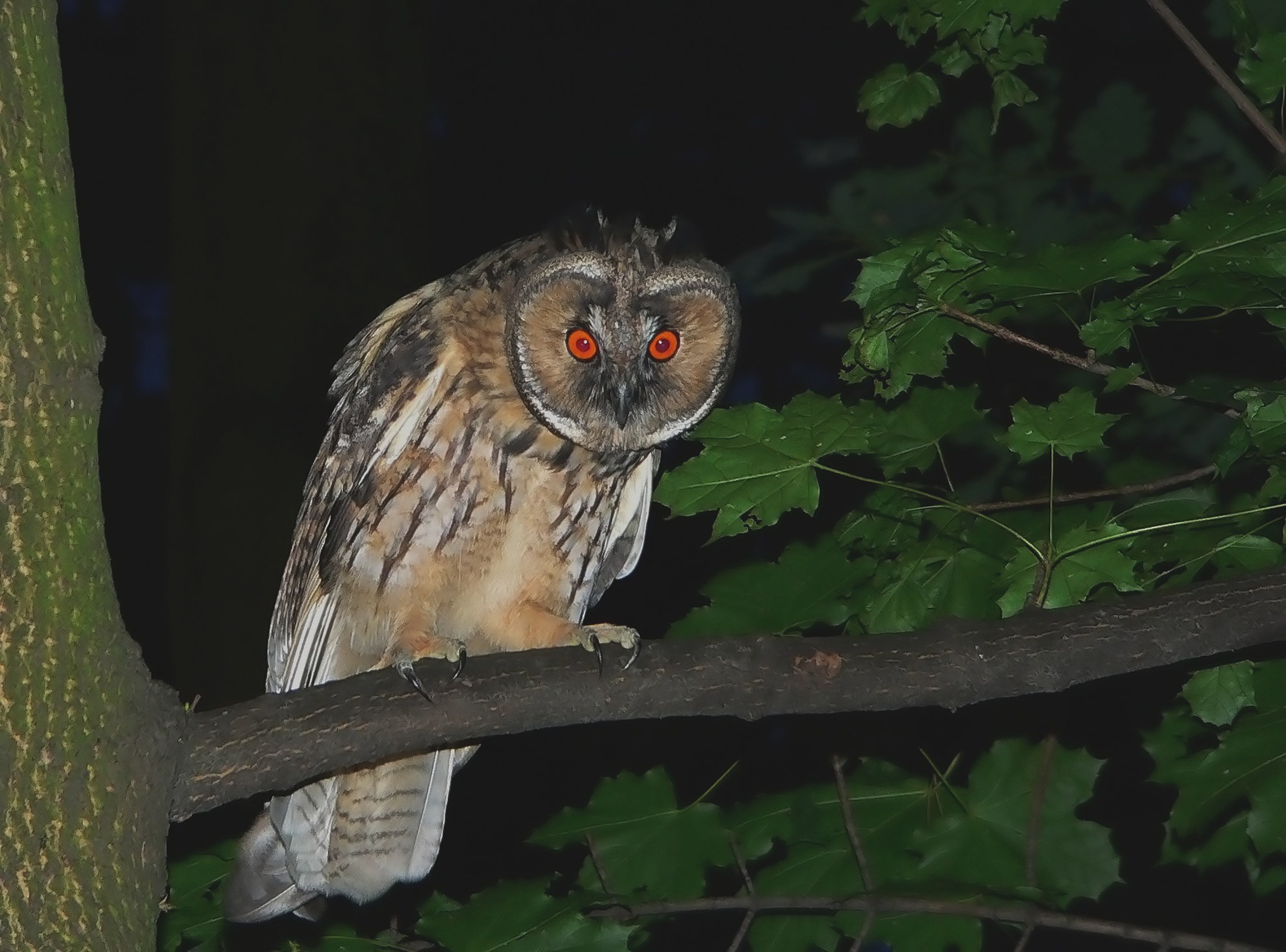 young Long-eared owl (Asio otus), surroundings of Warsaw, Poland